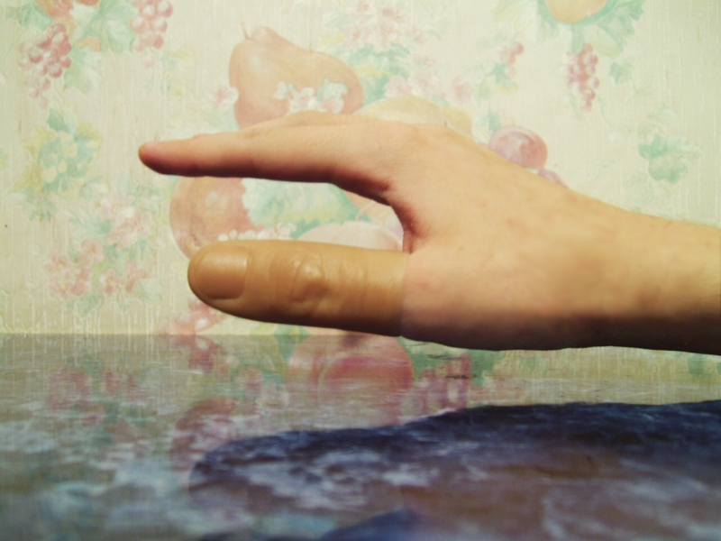 Thumb tip